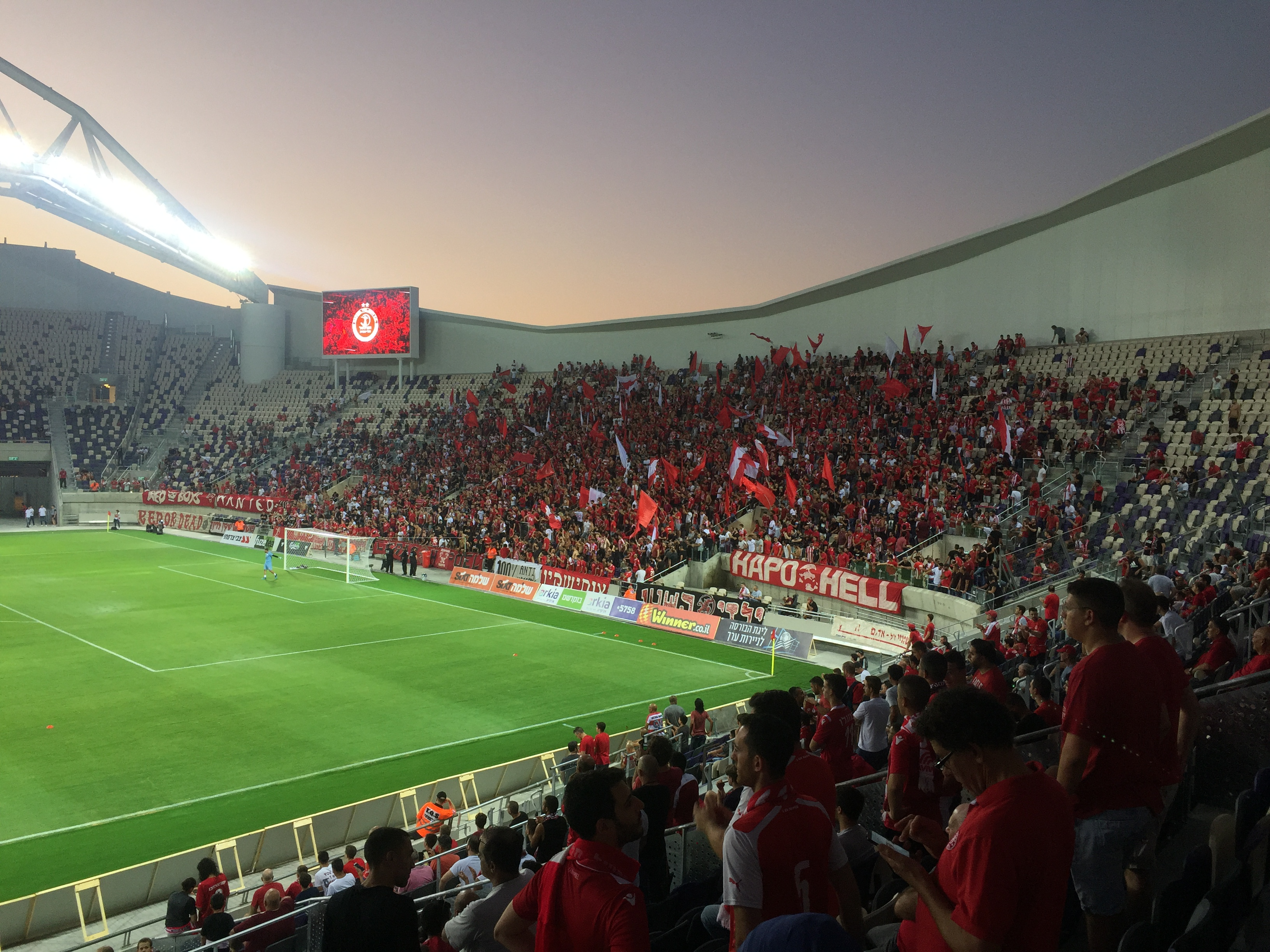 Hapoel Tel Aviv FC Fans in Bloomfield Stadium, August 2019